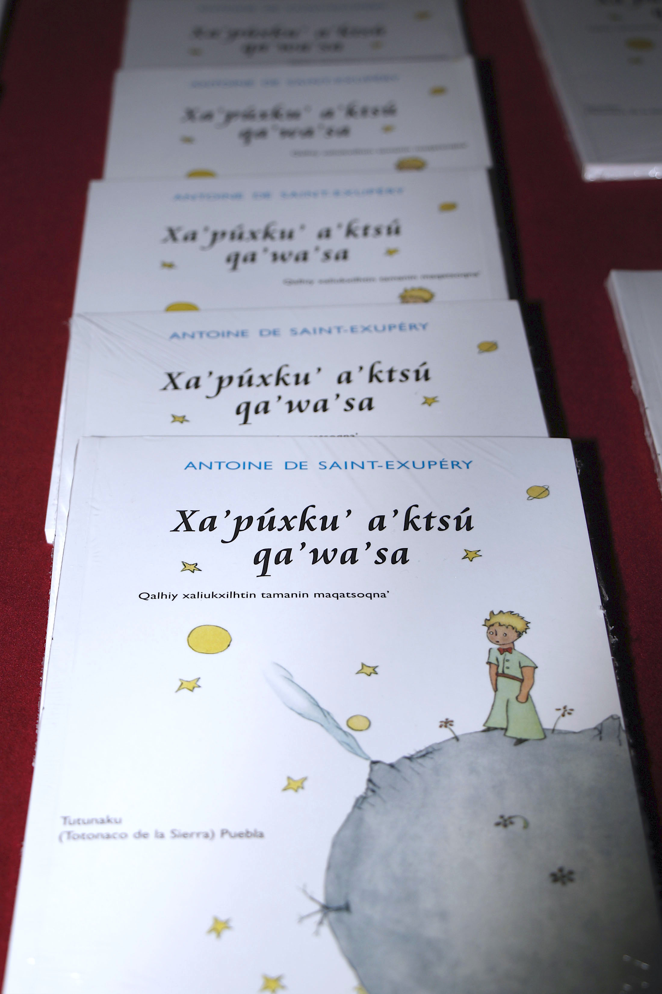 The Little Prince published in the Totonac language of Mexico. Jueves 21 de marzo de 2019En el Museo Archivo de la Fotografía, el profesor Pedro Pérez Luna presentó el libro traducido al totonaco El principito, de Antoin de Saint-Exupéry, con los comentarios de Guillermo Garrido, Leticia Ánimas, Nicolás Ellison, en representación de la Secretaría de Cultura de la Ciudad de México, Guadalupe Lozada León y Daniel H. Vargas encargado del MAF.Fotografía: Milton Martínez / Secretaría de Cultura de la Ciudad de México